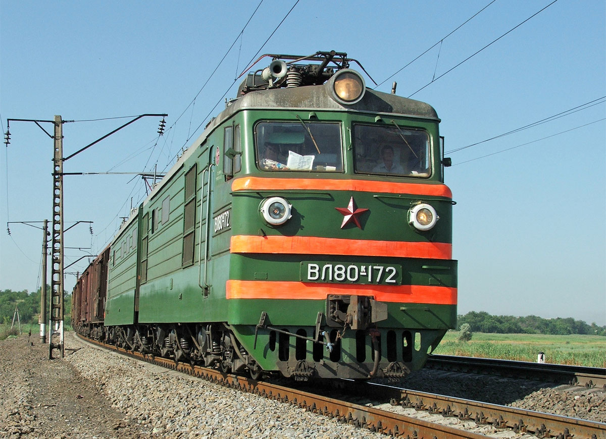 Electric locomotive VL80K